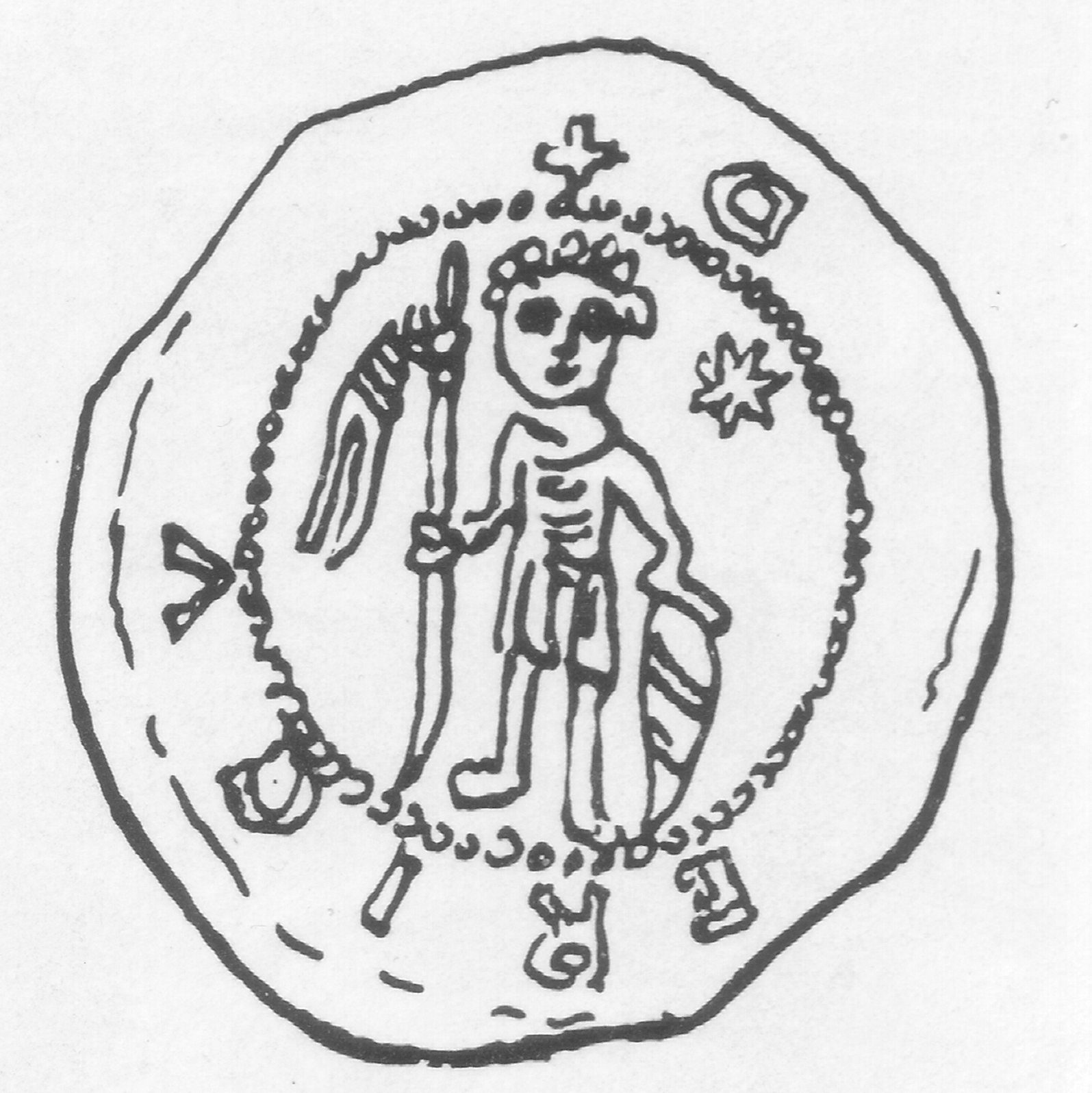 Frederick of Bohemia